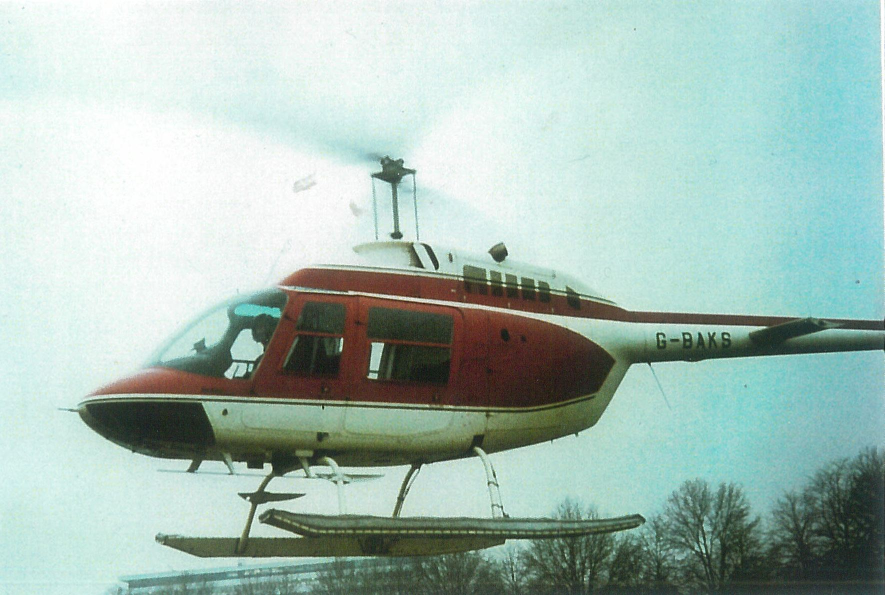 As part of our 40th anniversary celebrations we've been sharing a number of historical images. This photo shows the helicopter that was used for the first time in 1978 during 'The Battle of Digbeth'. More information about this incident can be found on our 40th anniversary website here